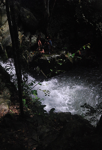 possibly and according to the context where this photo was used, this unidentified river is located near Imaman